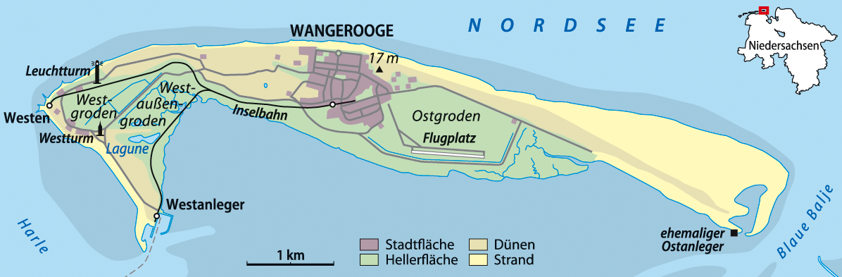 Map of Wangerooge